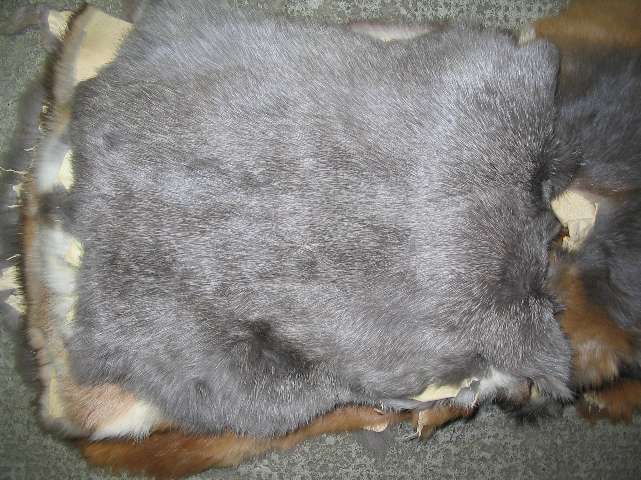 Domestic rabbit fur skin, perlfeh (pearl-squirrel